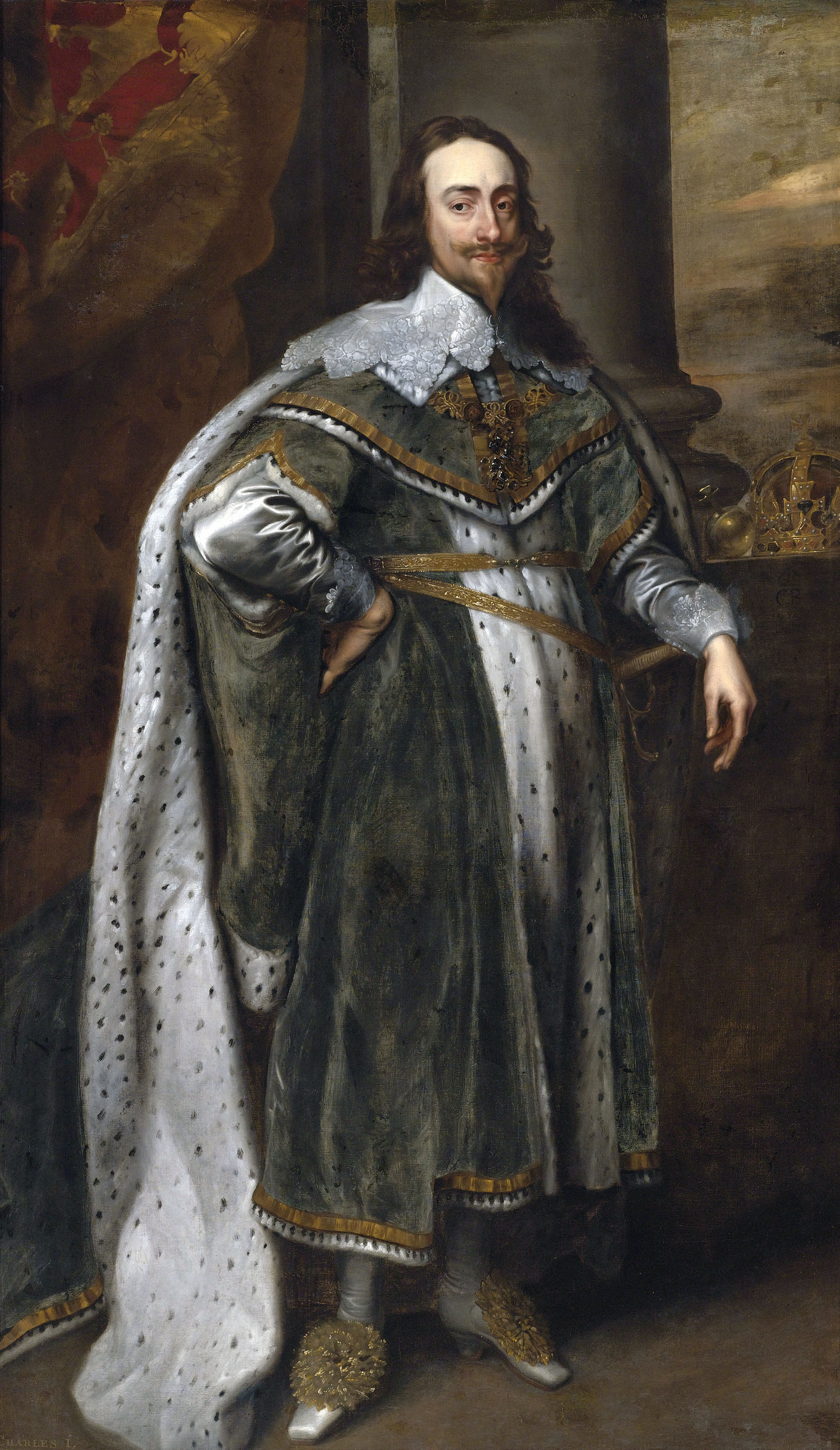 Follower version of much copied original in the Royal Collection, Windsor Castle